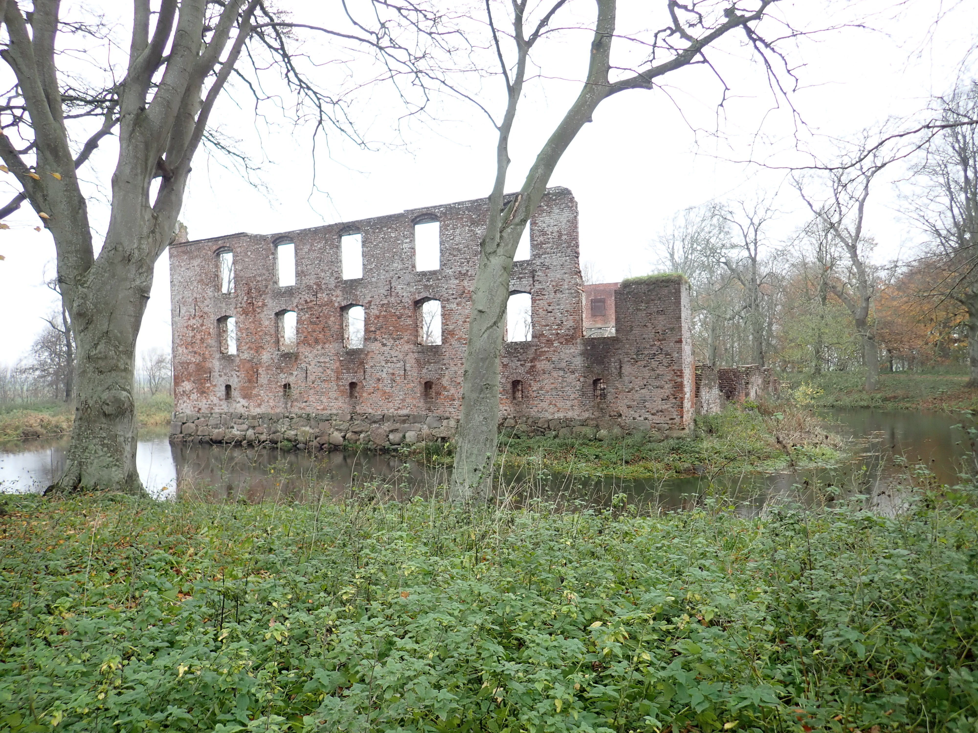 Trøjborg ruin behind trees